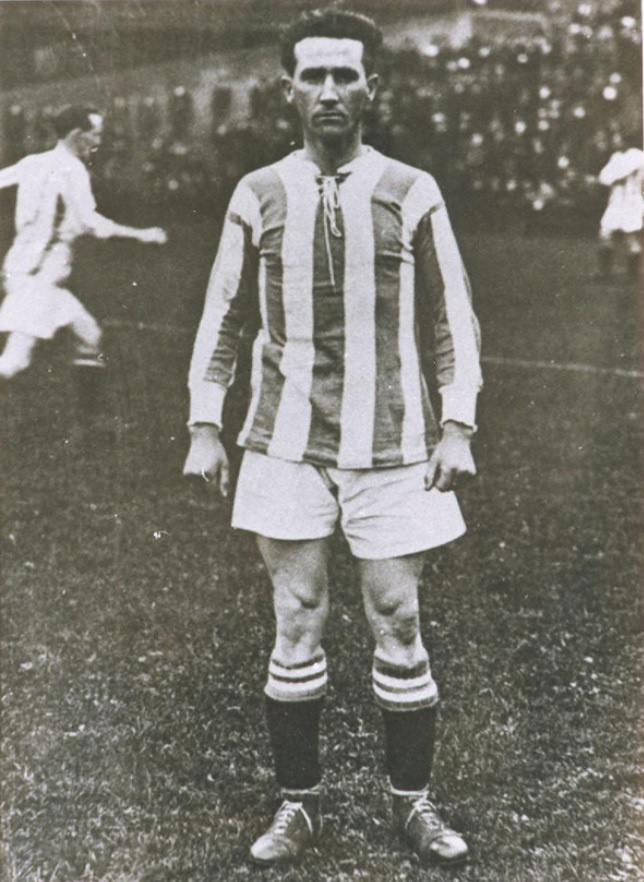 Patrick Norris on the pitch at Edgeley Park for Stockport County F.C..